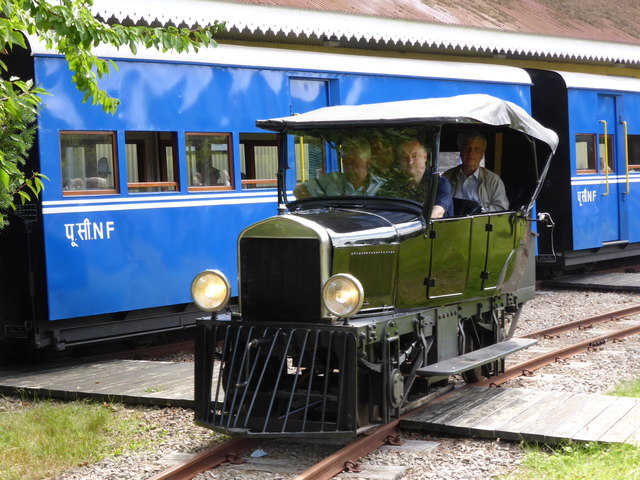 Beeches Light Railway - interesting vehicle. The site's owner saw a photograph of a device like this being used on an American railroad and had his own replica built using a genuine Ford Model T. This includes a jacking system that will lift the wheels free of the rails and allow it to be rotated on its axis in order to go the other way round. This was carrying passengers during the lunch break.